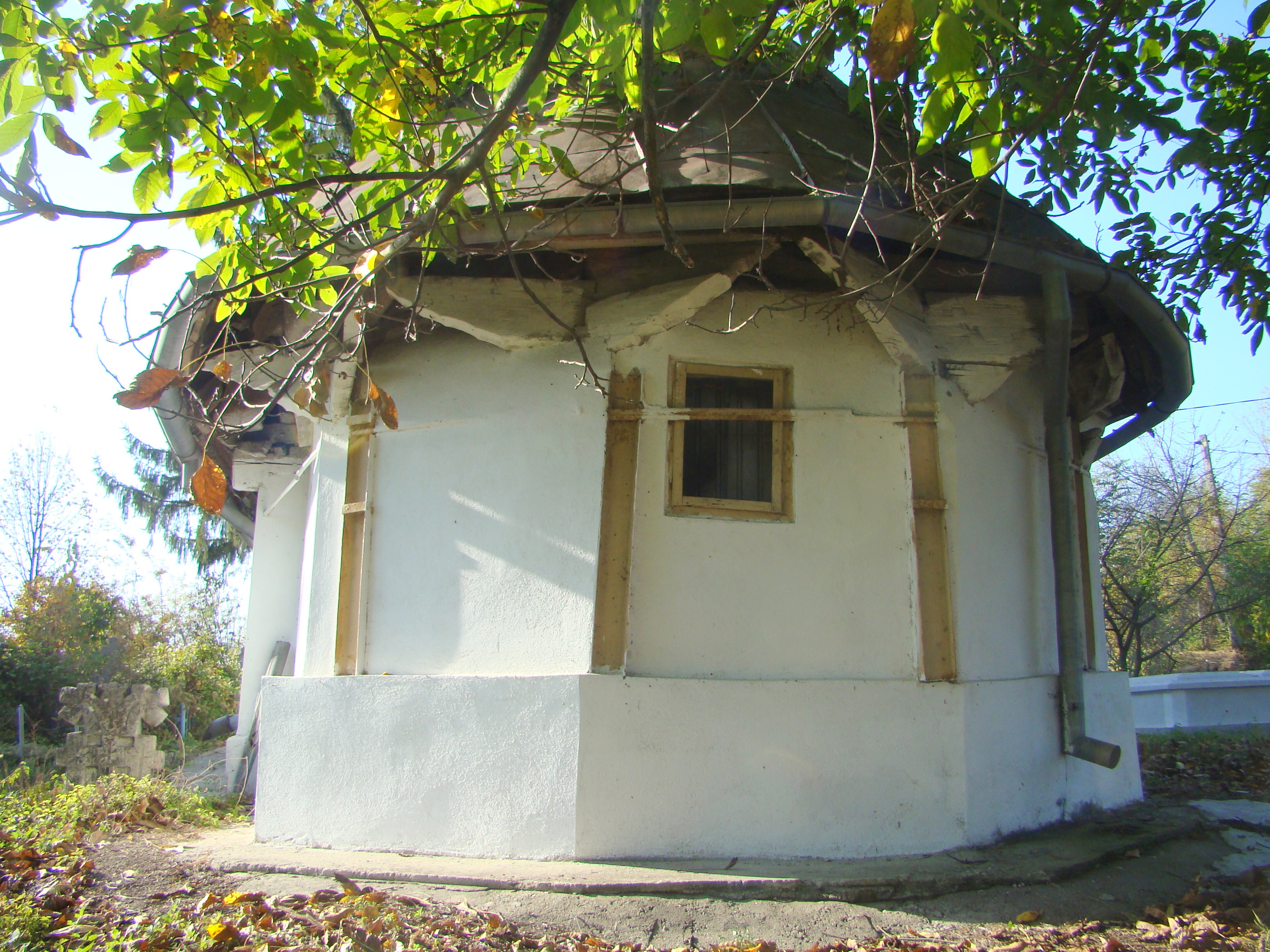 Saint George's wooden church in Valea Mânăstirii, Gorj county, Romania